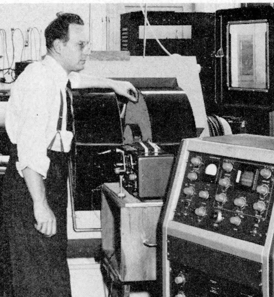 Nuclear magnetic resonance (NMR) equipment at US National Bureau of Standards (now National Institute of Standards and Technology), Arlington, VA in 1957. It consists of a large electromagnet (background), vacuum tube RF oscillator and chart recorders. It was used for solid state research. Caption: Nuclear magnetic resonance offers a tool for the investigation of the solid state. A study of the absorption of energy of atomic nuclei in solids provides a better understanding of the local electric and magnetic fields that the nuclei experience.